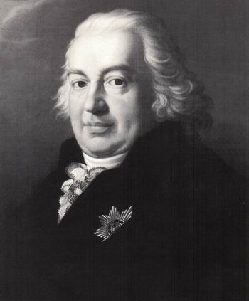 Portrait of Francis, Duke of Saxe-Coburg-Saalfeld